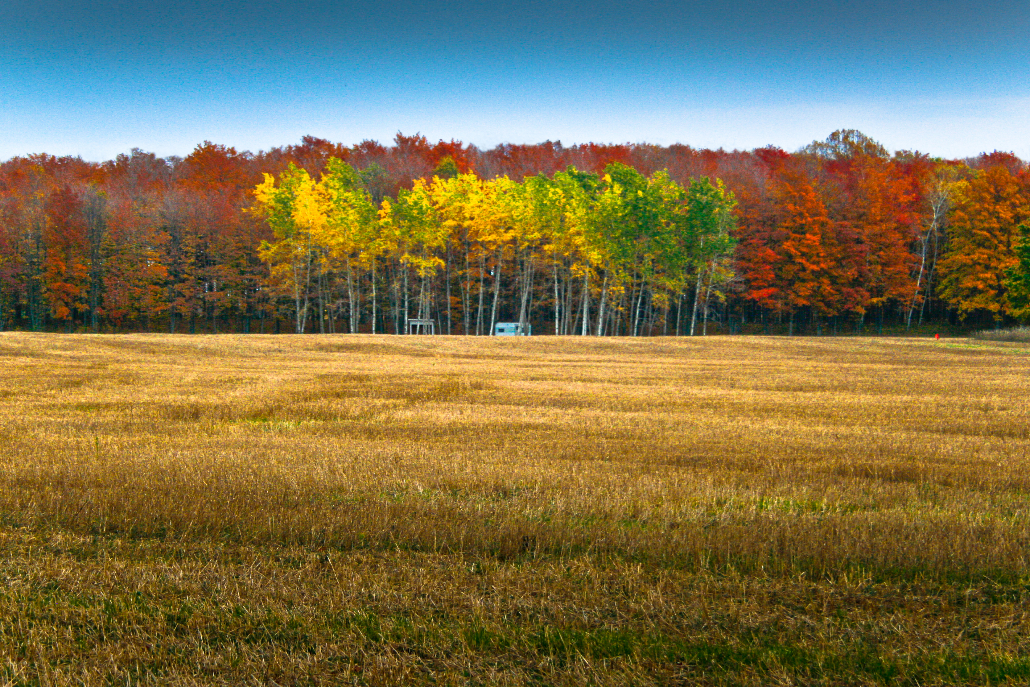 Autumn Landscape of Door County, Wisconsin